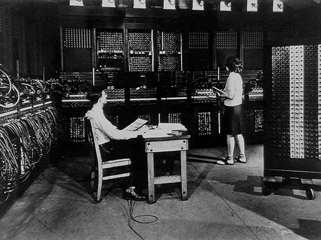 The ENIAC was the first electronic digital computer.